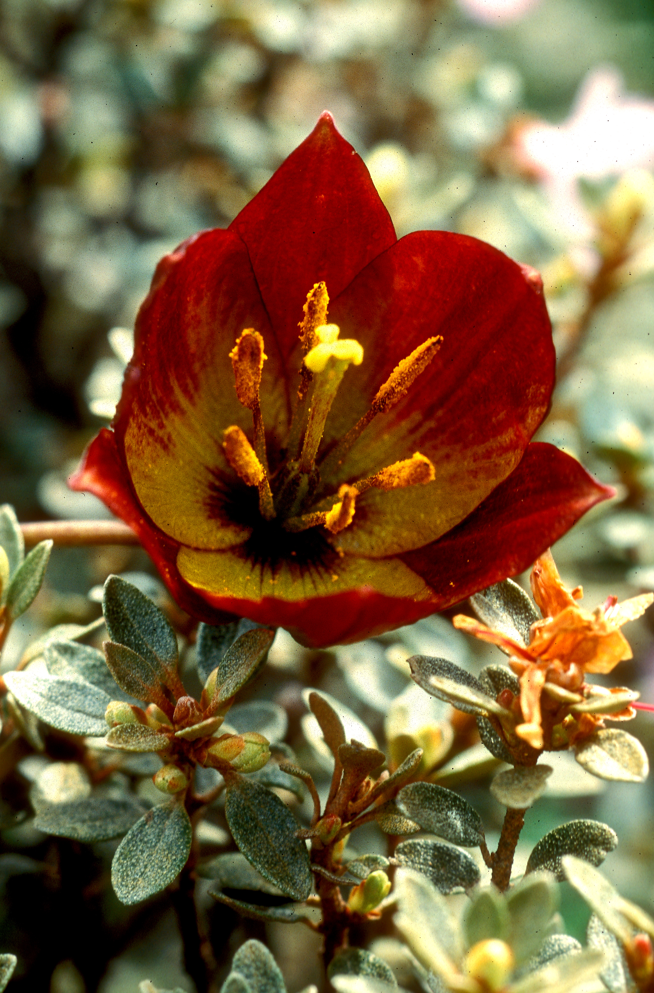 Lilium souliei in habitat, Lake Tianchi, Yunnan, China